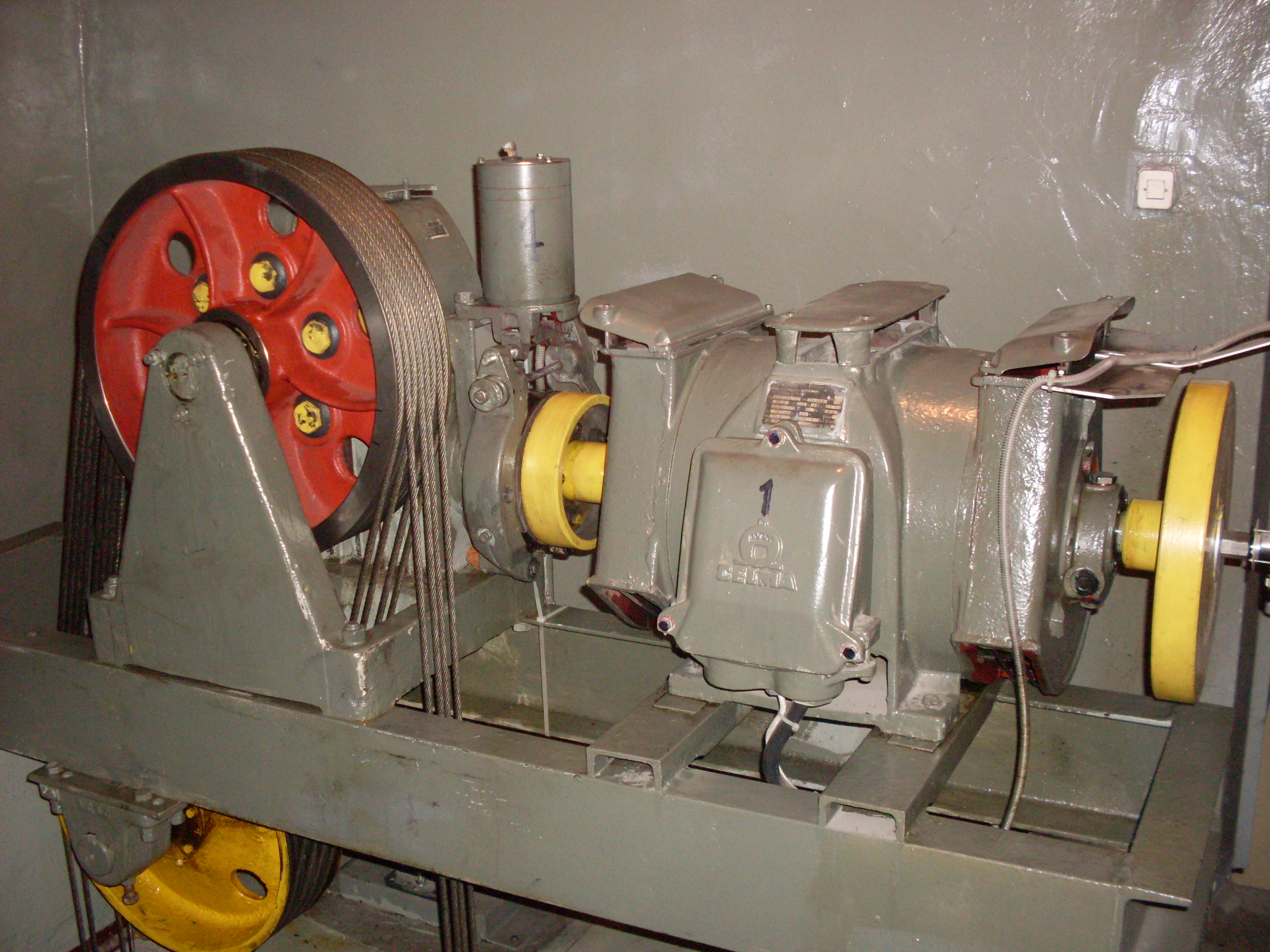 Elevator motor